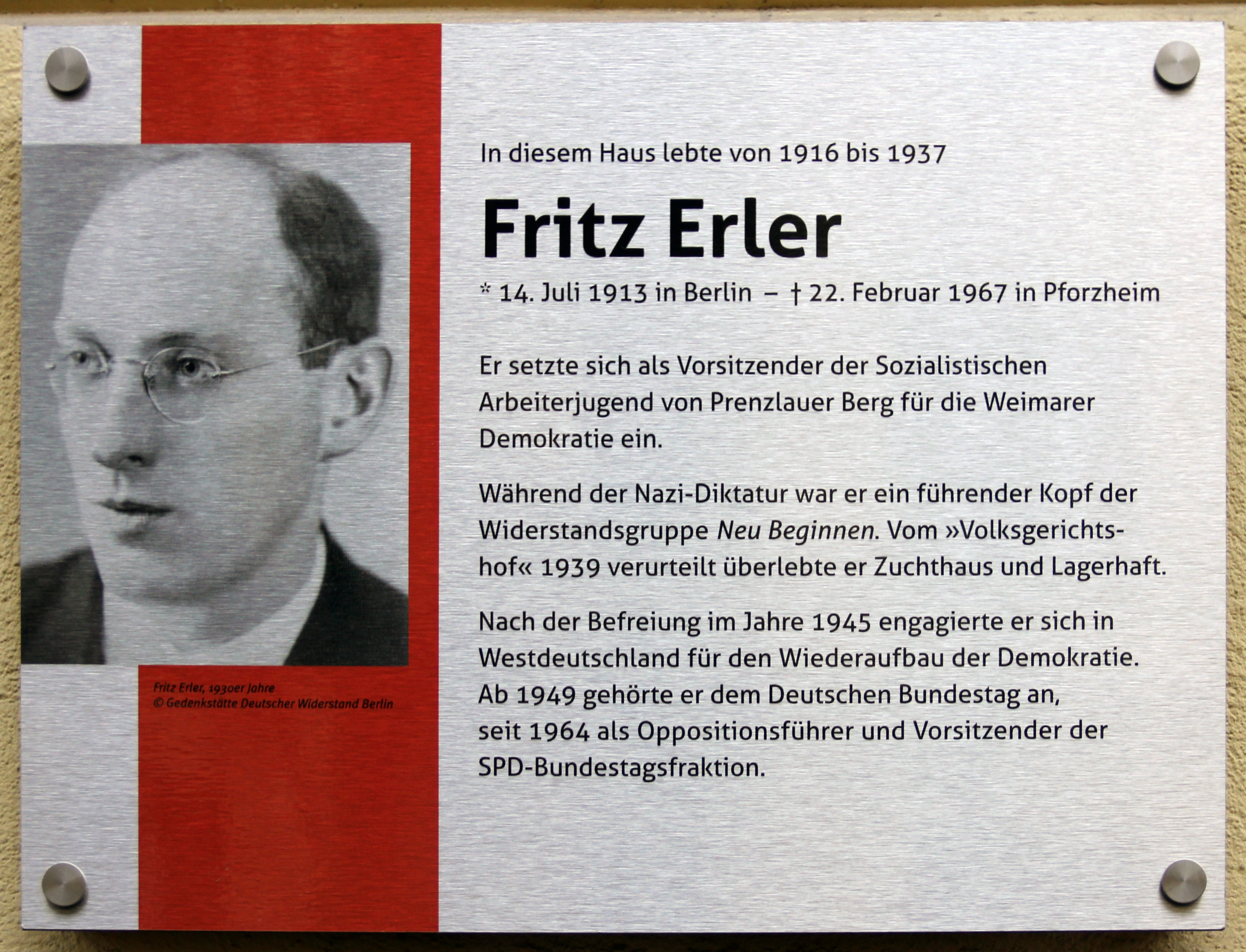 Memorial plaque, Fritz Erler, Chodowieckistraße 17, Berlin-Prenzlauer Berg, Deutschland